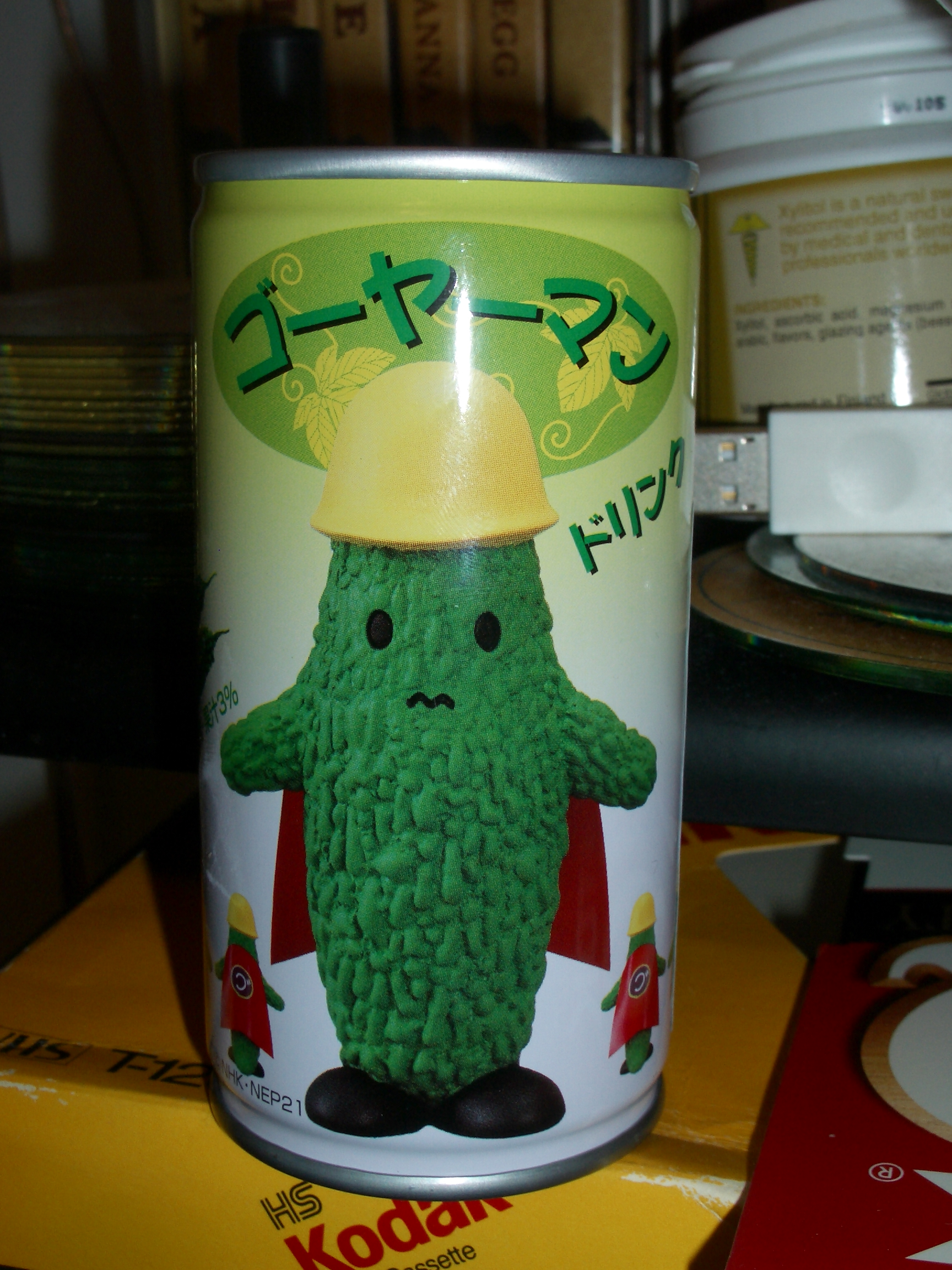 photo of a drink made from bitter melon, with bitter melon man the superhero on it